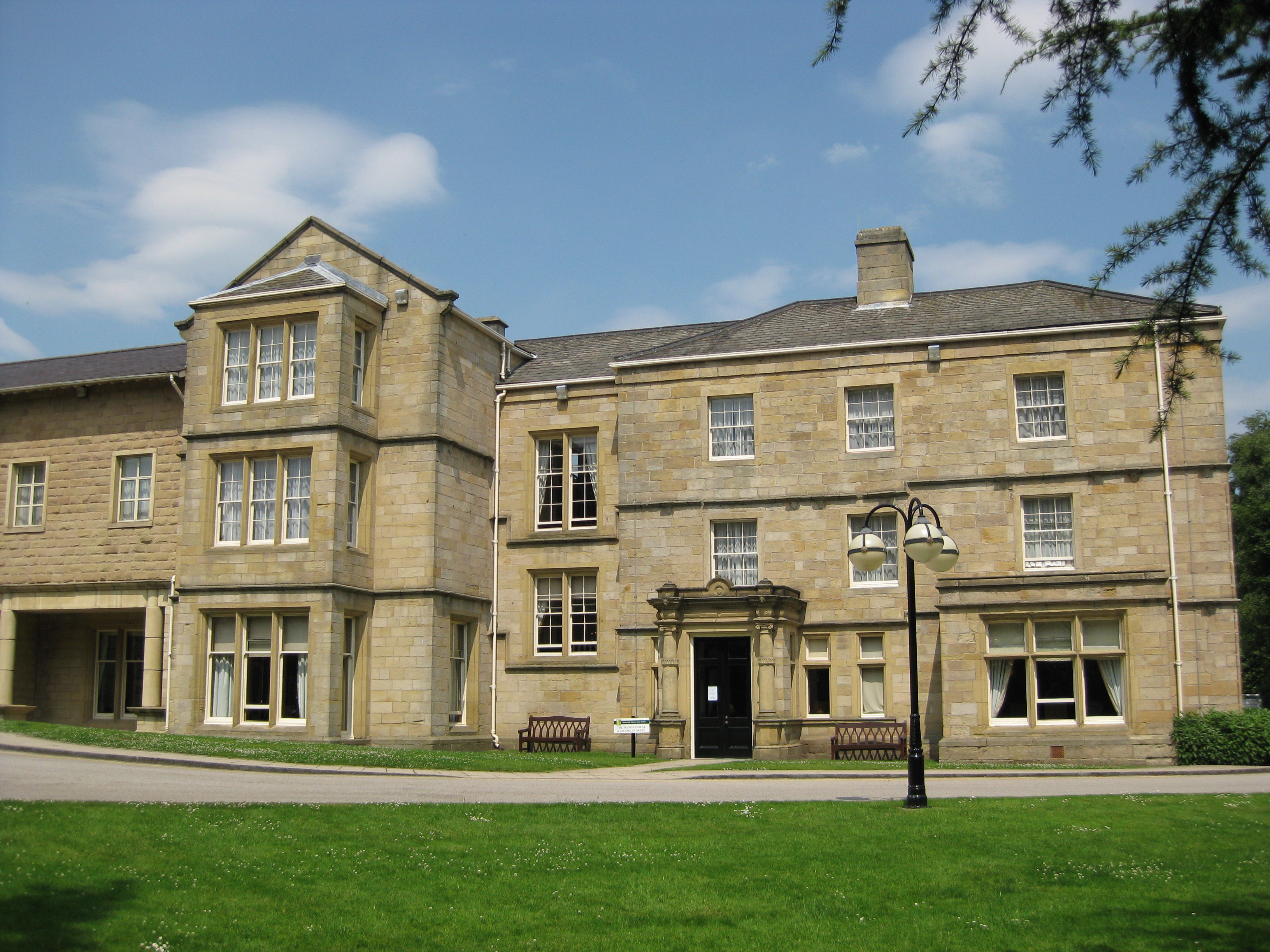 Weetwood Hall, including the Manor House to right. Otley Road, Leeds LS16 5PS